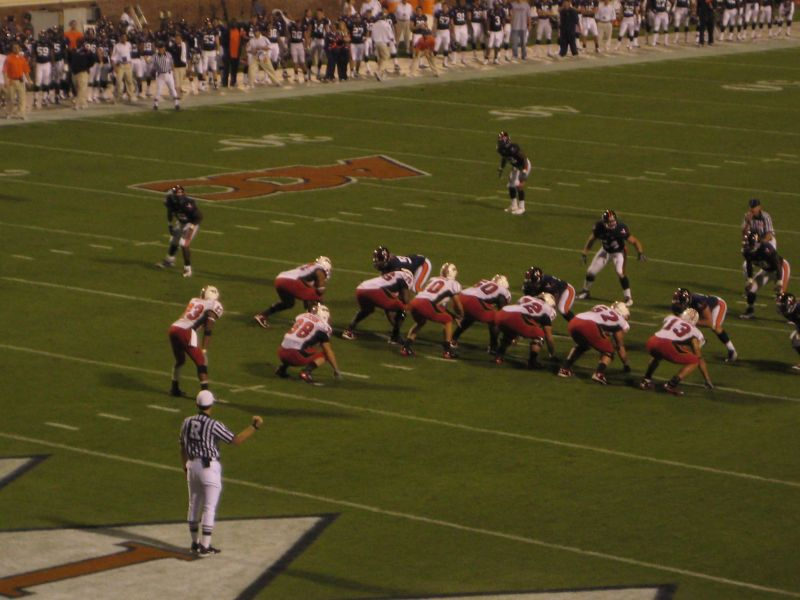 The Maryland Terrapins offense lines up against Virginia. October 4th, 2008.